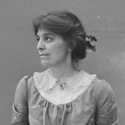 Mabel Tuke 1909 unattributed by Museum of London but the ODNB says its by Mrs Albert Broom who is Christina Broom (née Livingston 28 December 1862 – 5 June 1939) - so out of copyright